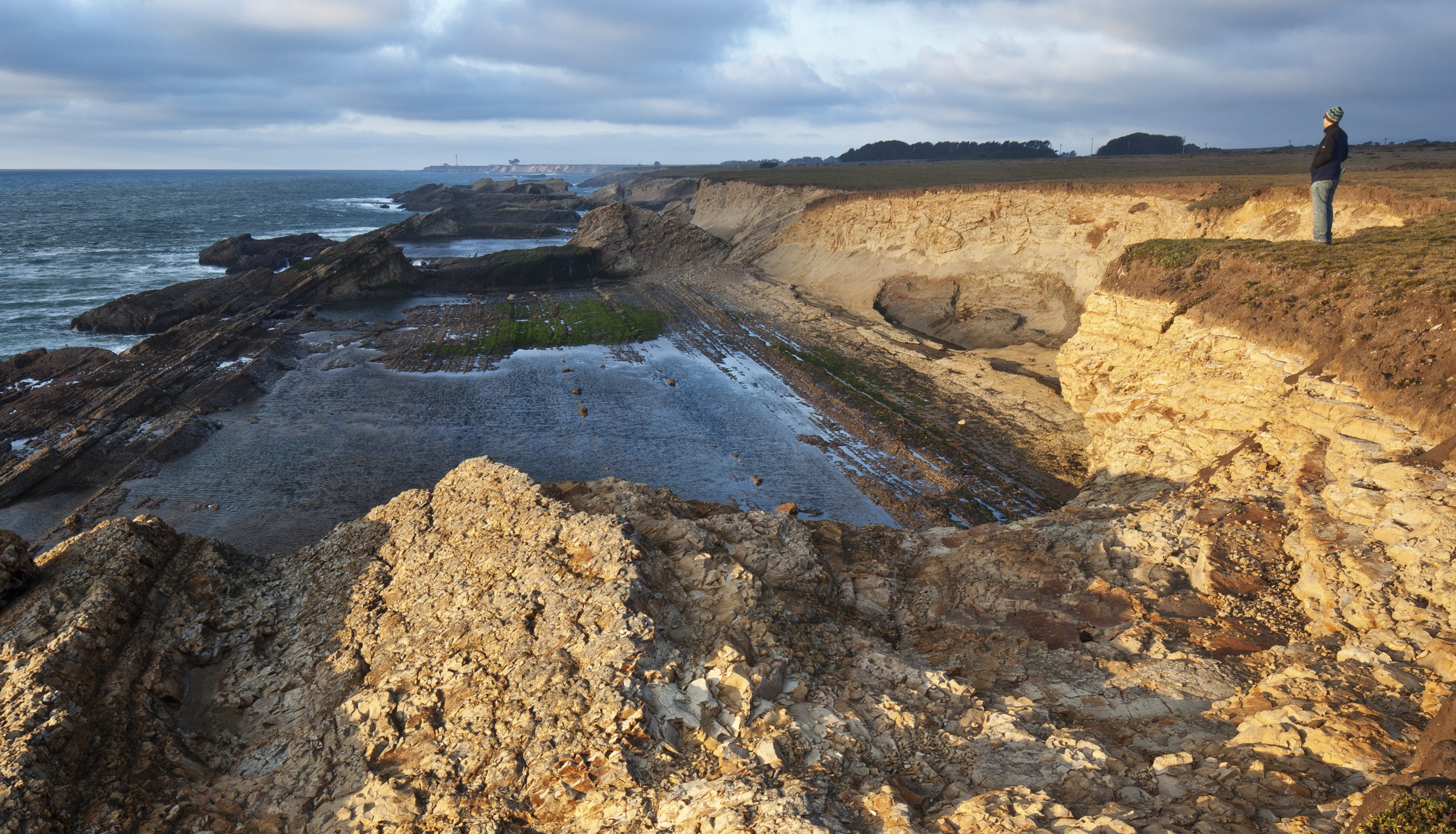 Located off the 1,100 miles of California coastline, the California Coastal National Monument comprises more than 20,000 small islands, rocks, exposed reefs, and pinnacles between Mexico and Oregon. The California Coastal National Monument is a biological and scenic treasure. Its thousands of islands, rocks, exposed reefs, and pinnacles are part of the near shore ocean zone, which begins just off shore and ends at the boundary between the continental shelf and continental slope. The Monument, established by presidential proclamation in 2000, provides feeding and nesting habitat for an estimated 200,000 breeding seabirds, as well as forage and breeding habitat for marine mammals including the southern sea otters and California sea lions. For more information visit